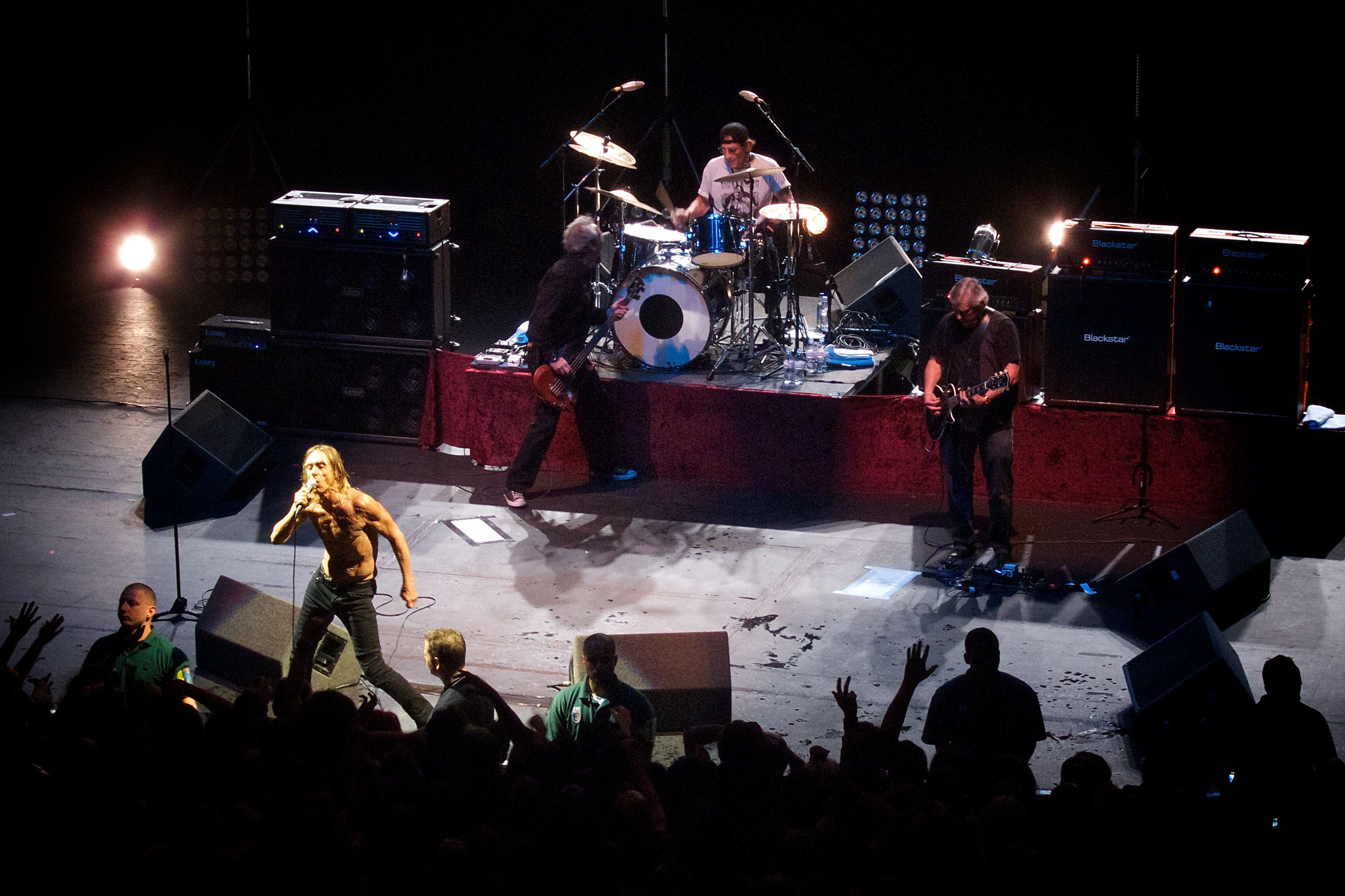 Hammersmith Apollo, 2nd May 2010